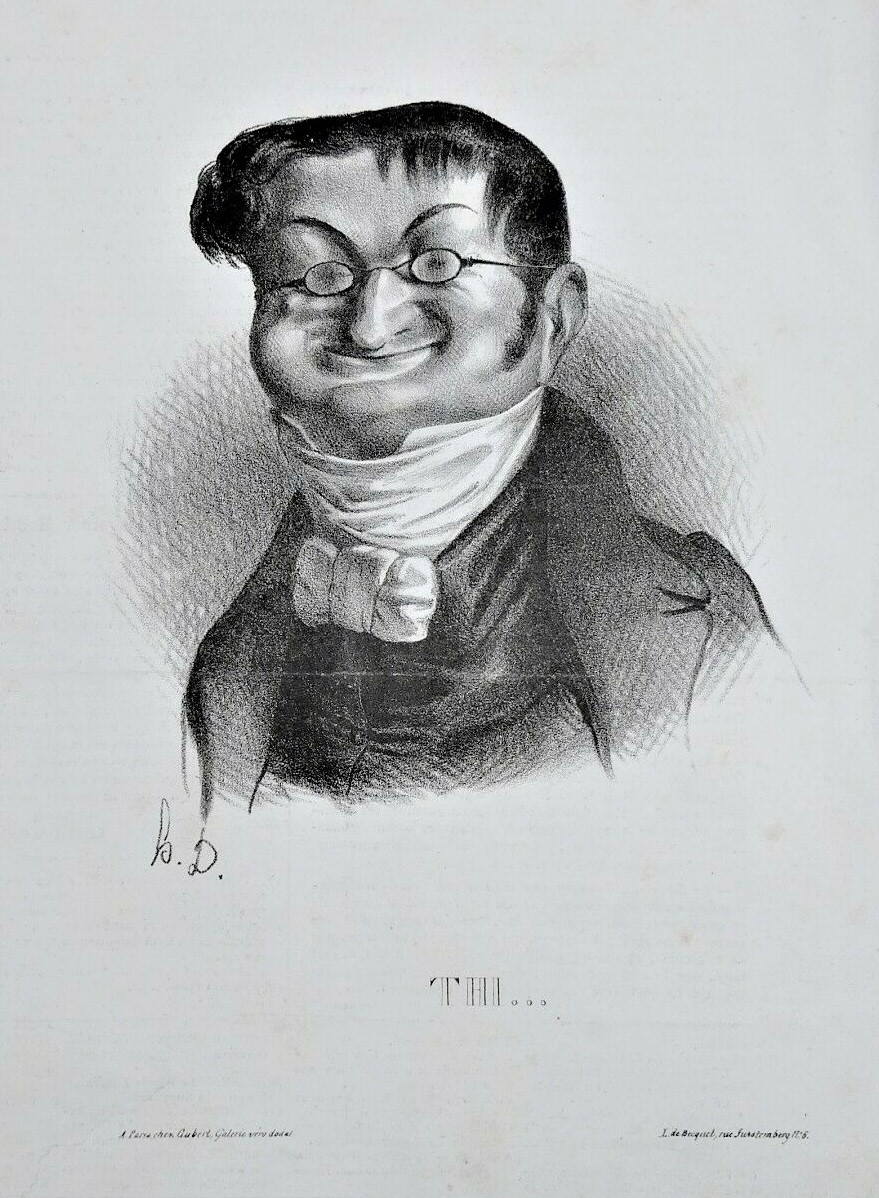 Adolphe Thiers, French politician.